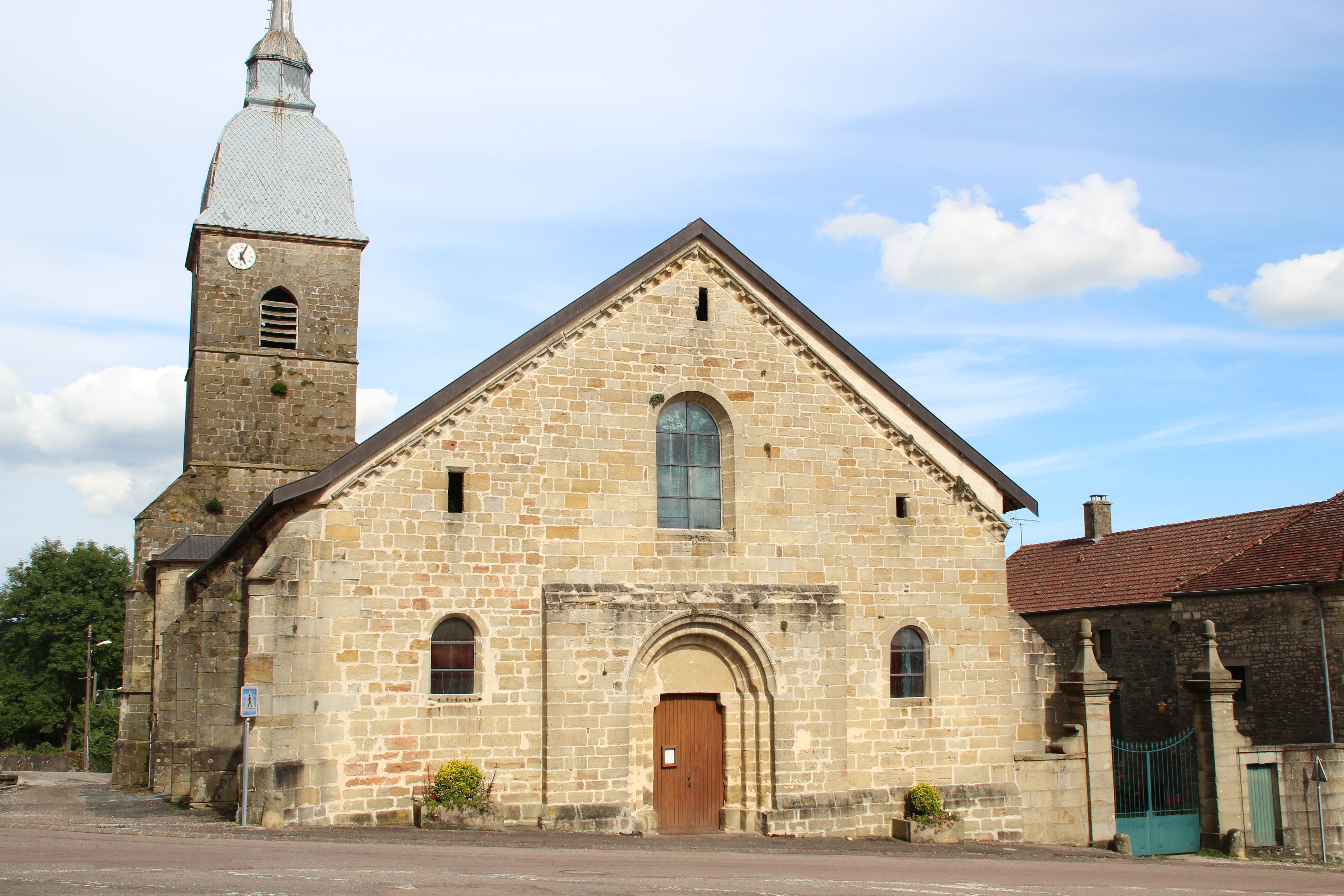 Saint-Blaise church in Serqueux, Haute-Marne, France.